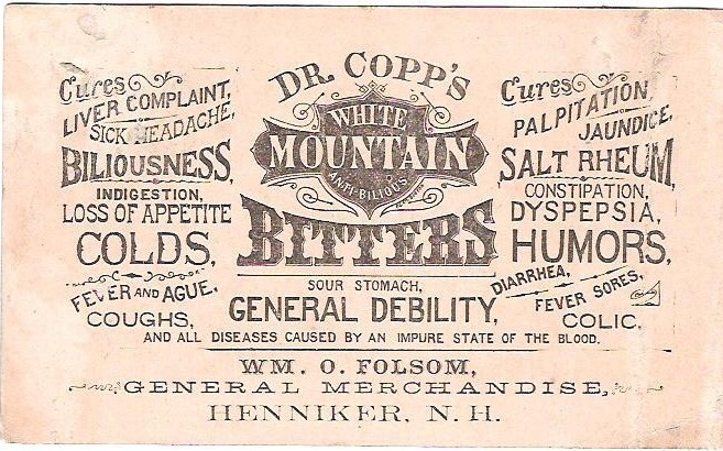 Dr. Copp's White Mountain Bitters advertising card; eBay store Web page states: "Antique 19thC chromo litho trade card advert / Roller Skating Scene 'A Header' / Dr Copps White Mountain Bitters. / Wm O Folsom General Merchandiser Henniker, N.H. / Measures approx 4 1/4" x 2 3/4" ( 110mm x 68mm) / Publisher; J M Buffords 1883 / Condition; Corner wear. Vertical crease near left side."